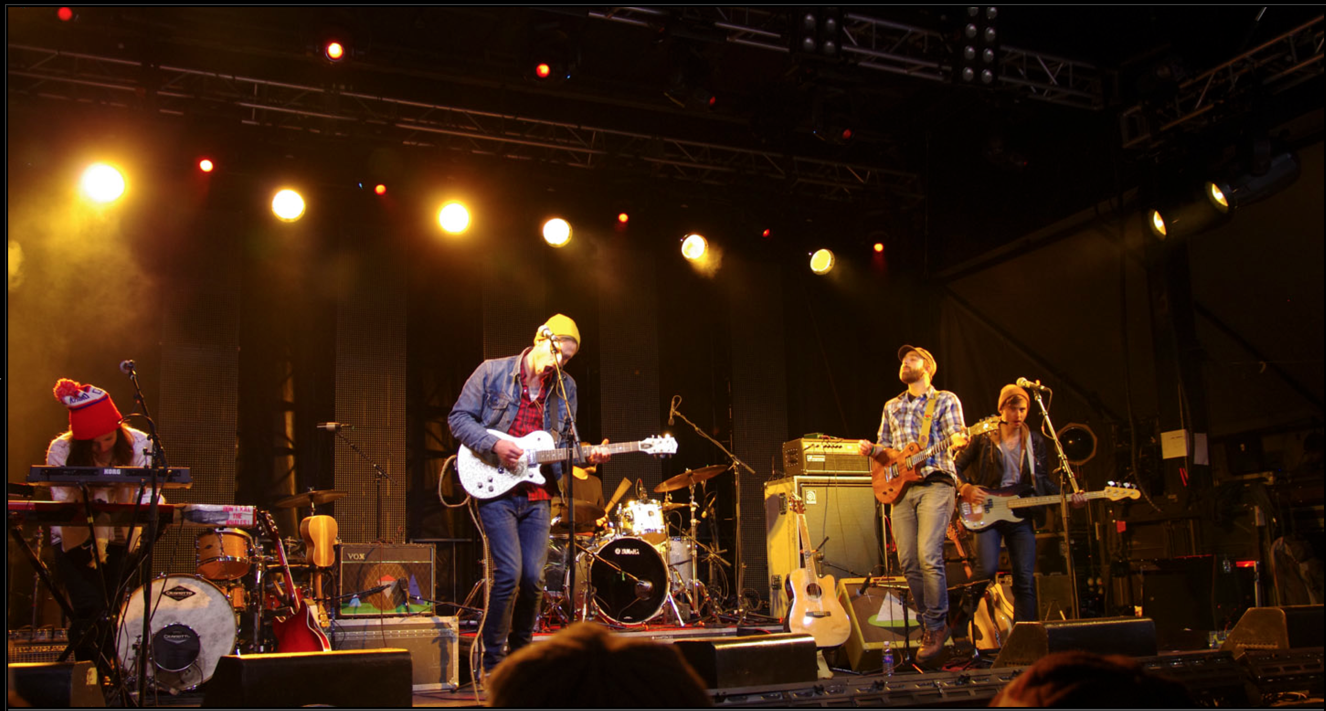 Said the Whale playing a show at the grey cup street party